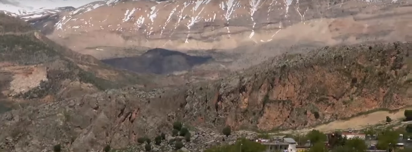 Heights surrounding Serefli village's North